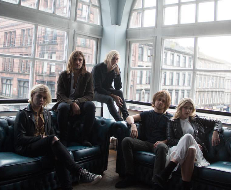 A 2015 photo of American pop band R5 in Glasgow, Scotland.